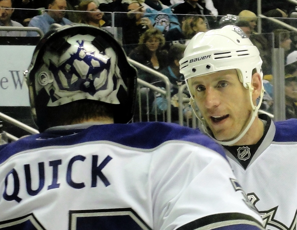 Rob Scuderi talks to his goalie during a February 10, 2011 game between the Los Angeles Kings and Pittsburgh Penguins at Consol Energy Center in Pittsburgh, PA.